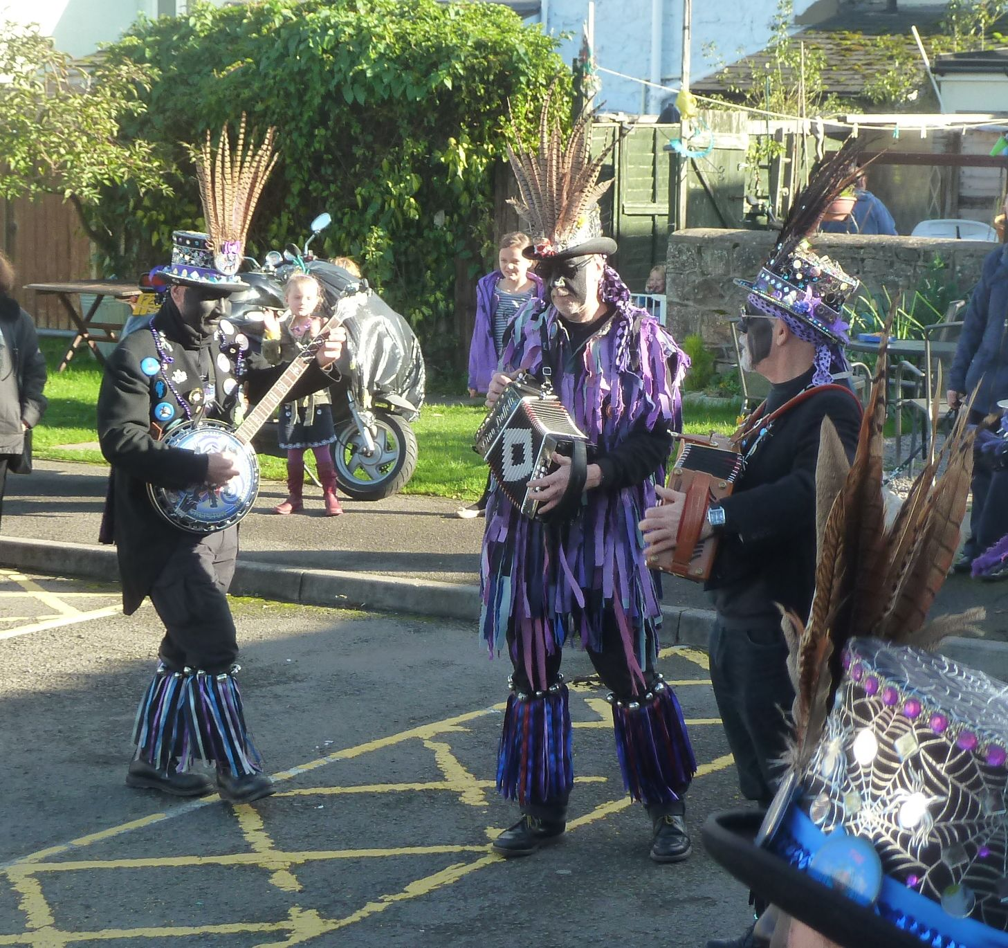 Music for The Widders Border Morris side, Chepstow Apple Day celebrations, November 2013